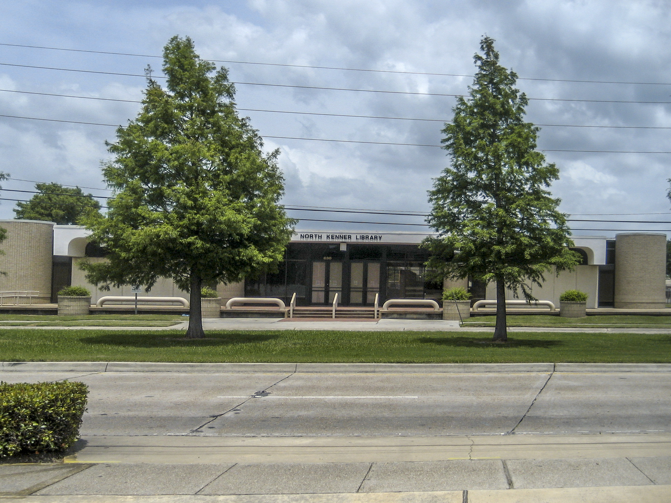 Kenner, Louisiana. Public library.